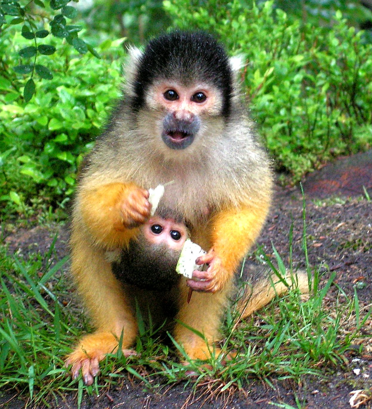 Black-capped Squirrel Monkey (Saimiri boliviensis) with baby. Picture taken in Apenheul zoo, Apeldoorn, The Netherlands (May 2006). In this zoo, many of the animals roam around freely. During feeding time, they are grateful subjects for photography. Photo by Jens Buurgaard Nielsen